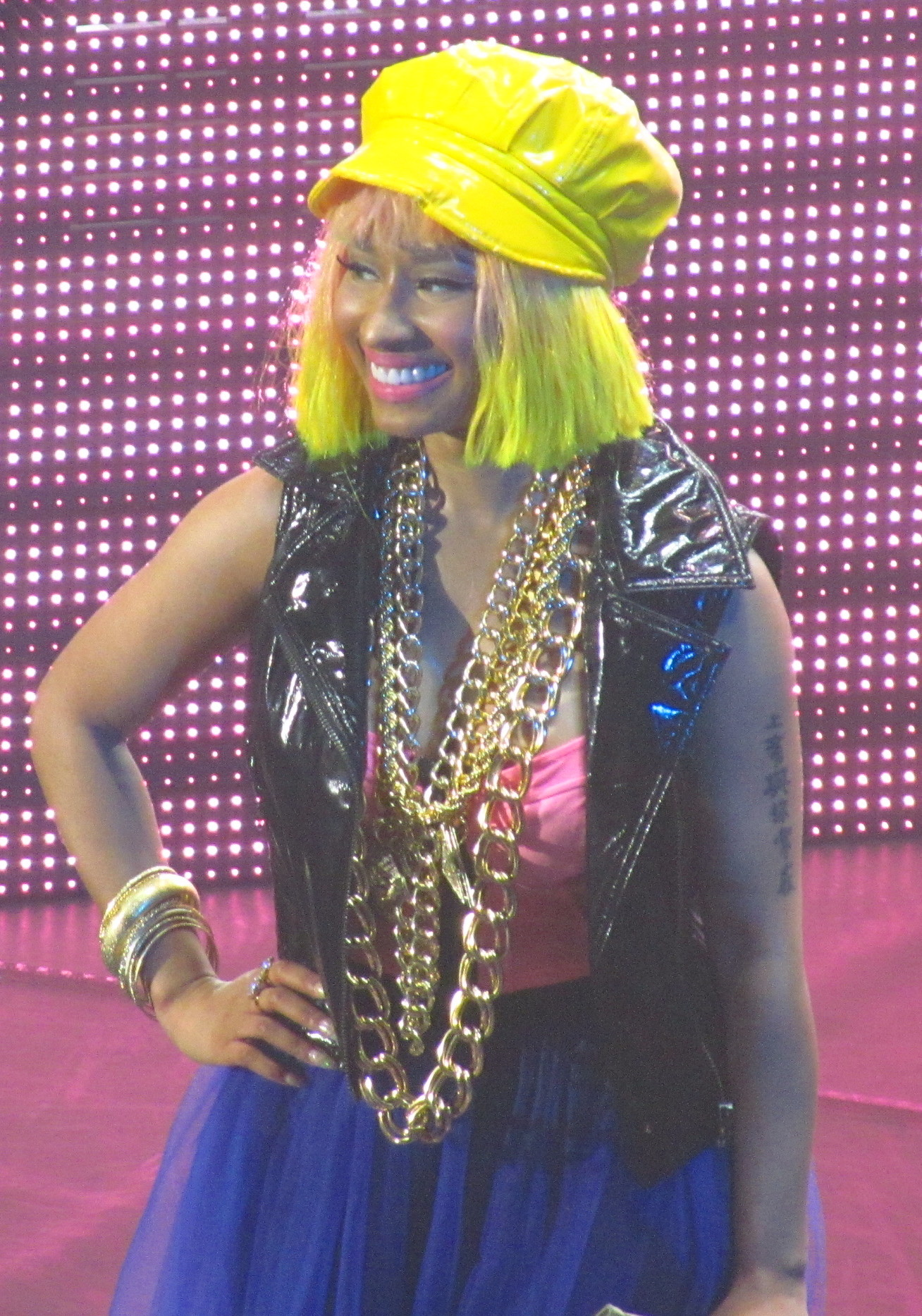 Nicki Minaj performing at the HMV Hammersmith Apollo on June 25, 2012 in London, England on the Pink Friday Tour.